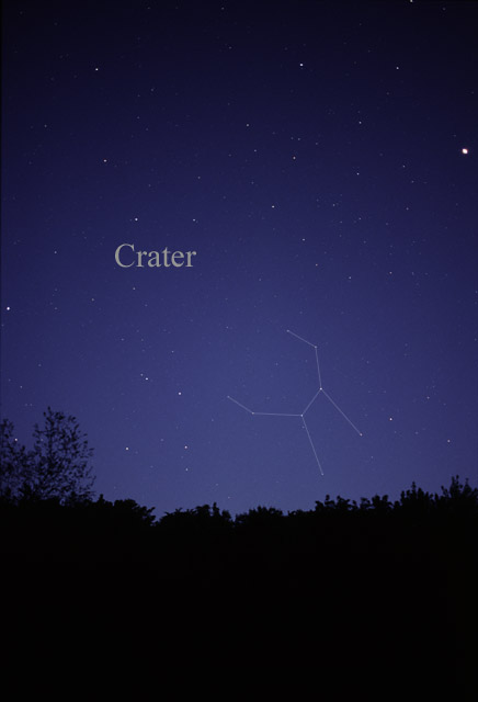 Photography of the constellation Crater, the cup